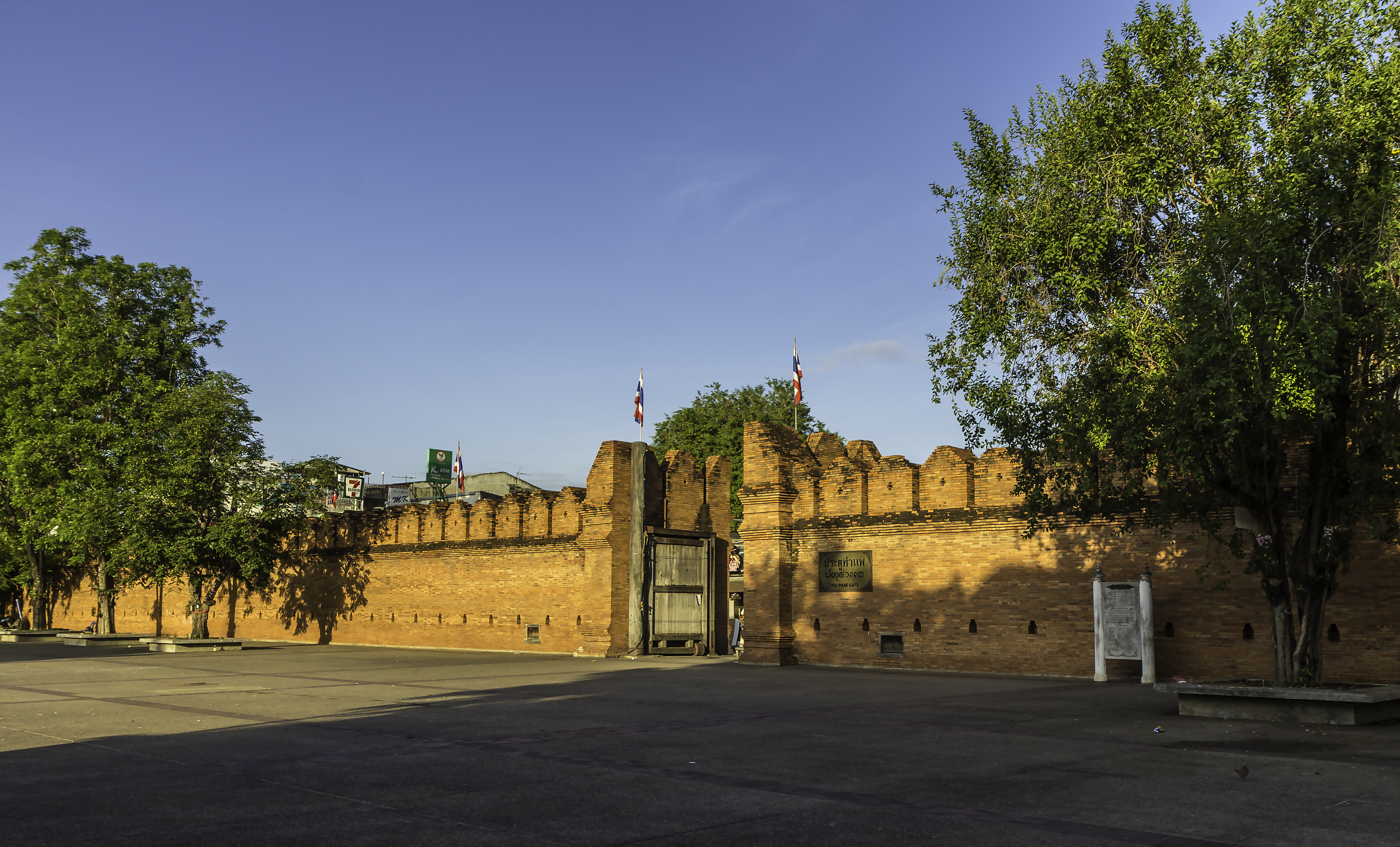 East gate (Tha Phae Gate) of the city wall, Chiang Mai, Thailand